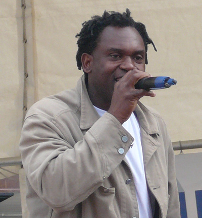 Dr. Alban in concert.